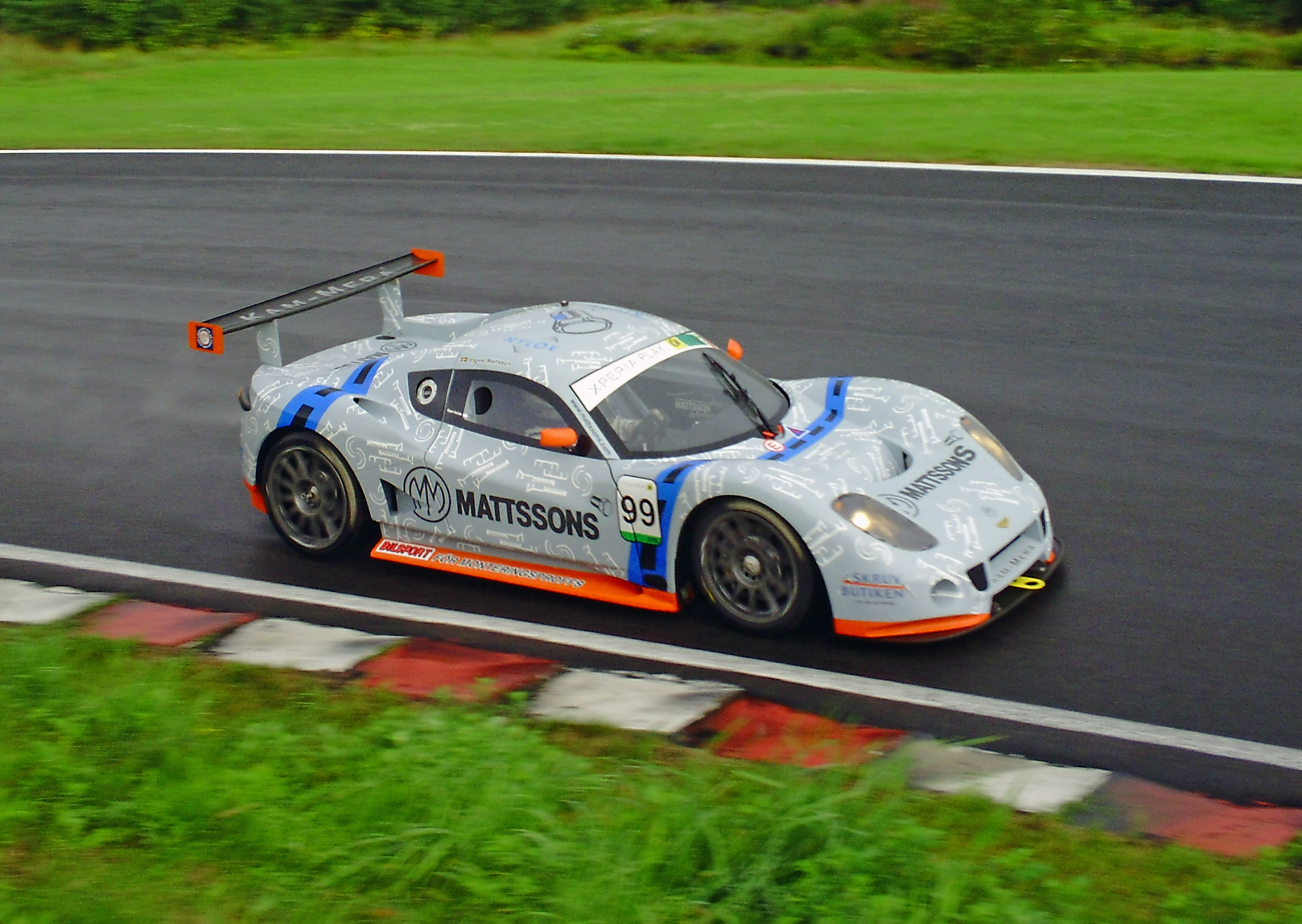 A Chevron GR8 driven by Ingvar Mattsson and Niklas Johansson for Mattsson Fasteners in Swedish GT Series at Falkenbergs Motorbana, 2011